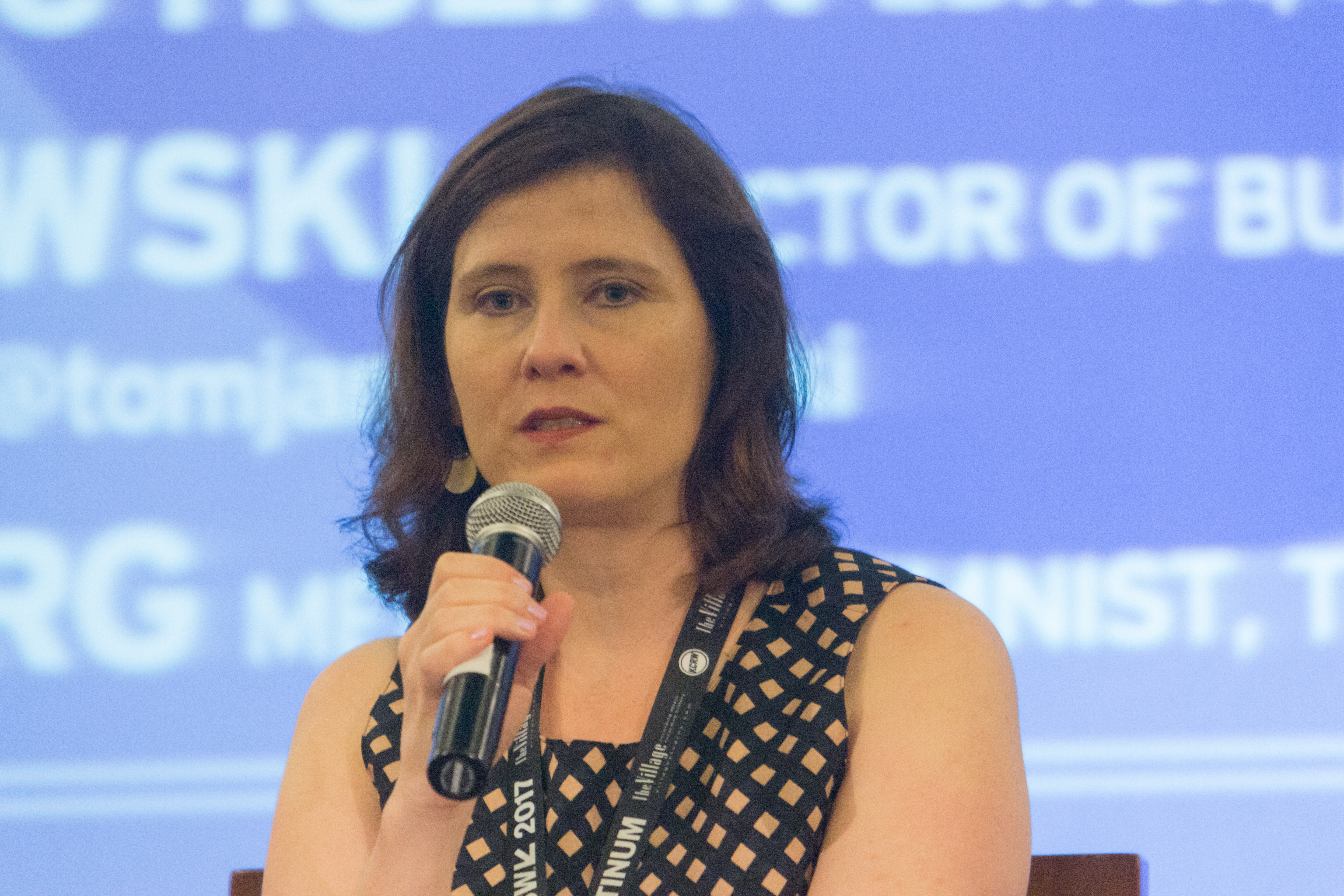 From the panel Media vs Fakers & Haters In the Post-Fact Era Photo: Ståle Grut/NRKbeta